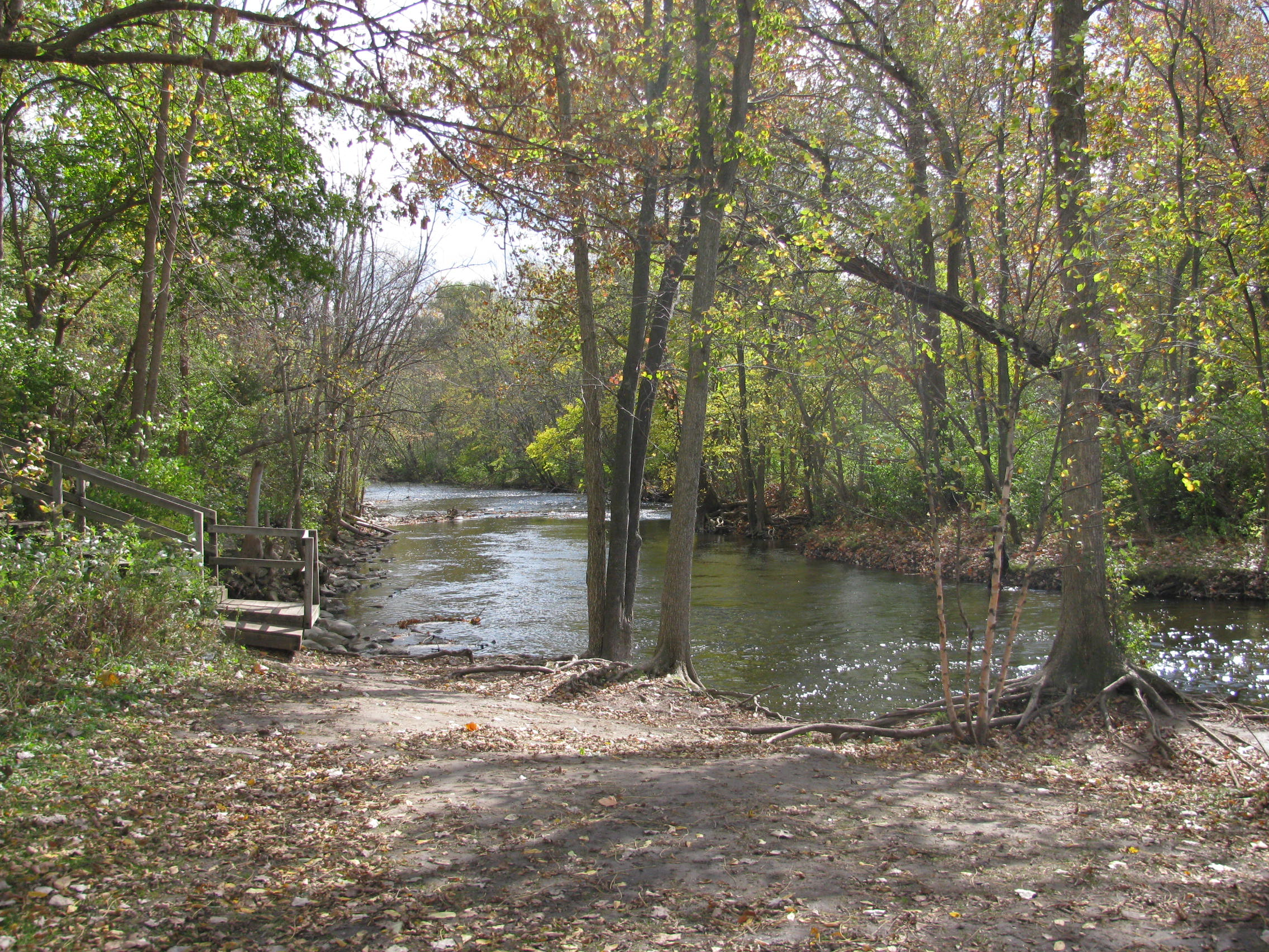 Clinton River at Yates Cider Mill.